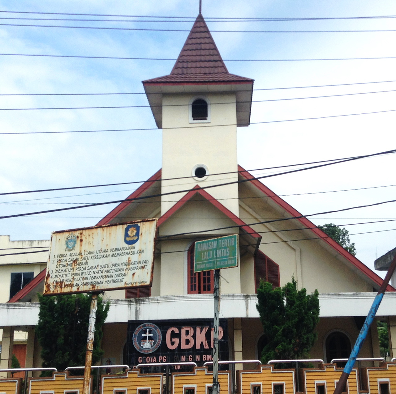 GBKP Rg. Simpang Awas Binjai, Klasis Binjai - Langkat, Church in Binjai Timur, Binjai